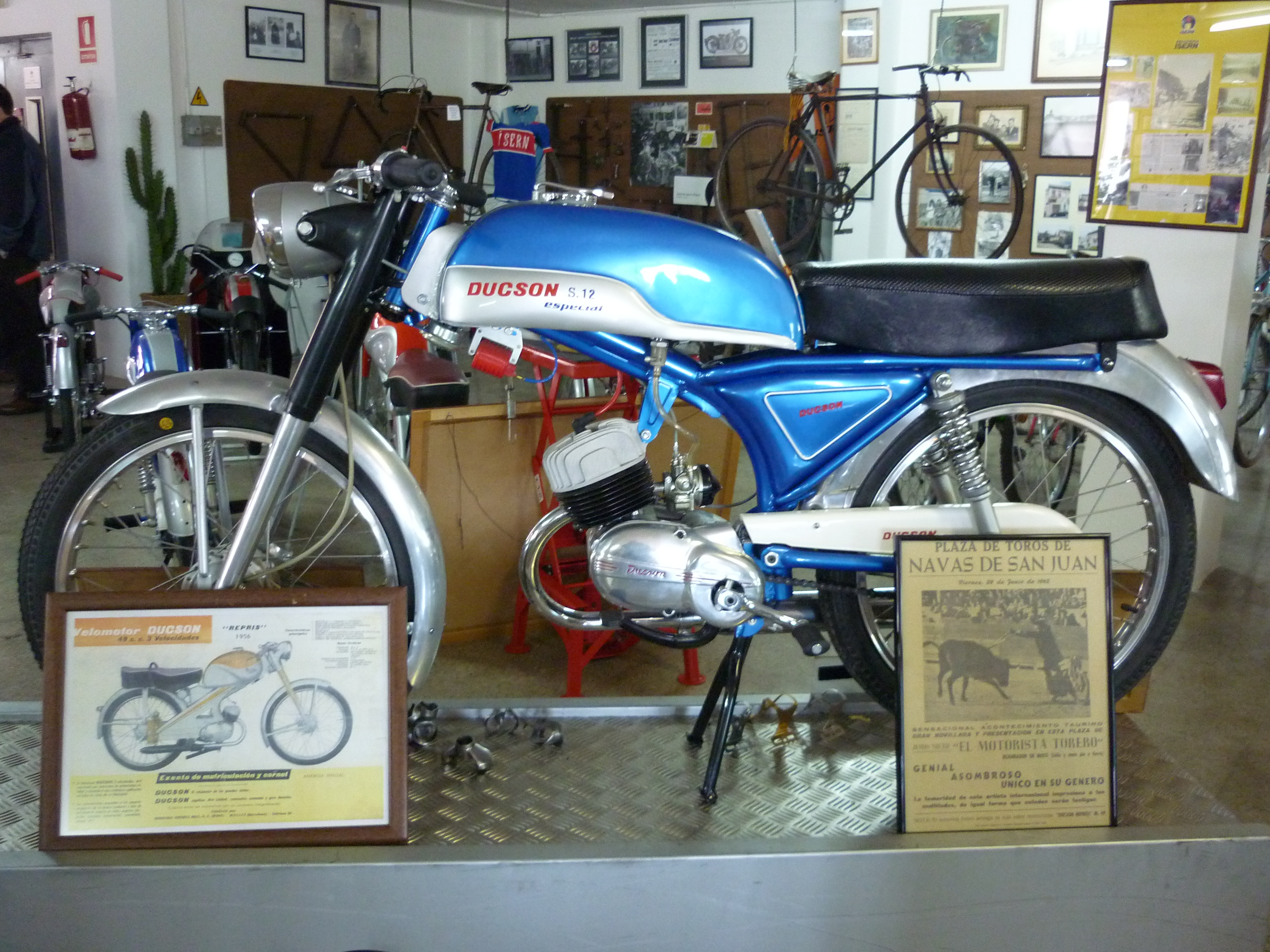 Ducson moped S12 Especial 49cc (around 1962). Isern Motorcycle Museum, Mollet del Vallès (Catalonia).